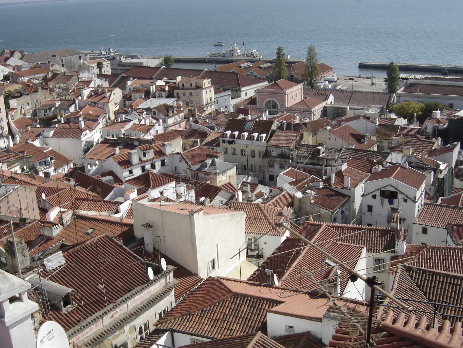 Alfama, Lisboa